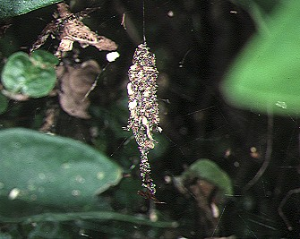 nest of Cryptachaea projectivulva from Okinawa.